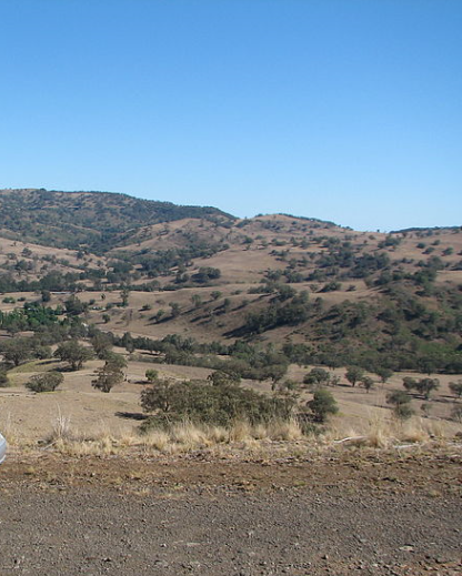 This is an adaptation of the wikicommons photo Upper Coolaburragundy River valley and Pandora's Pass, near Coolah NSW, December 2009.jpg which allows adaptation under its licence. I include it here because the original photo has numberplates shown that may compromise privacy legislation in the country of origin.